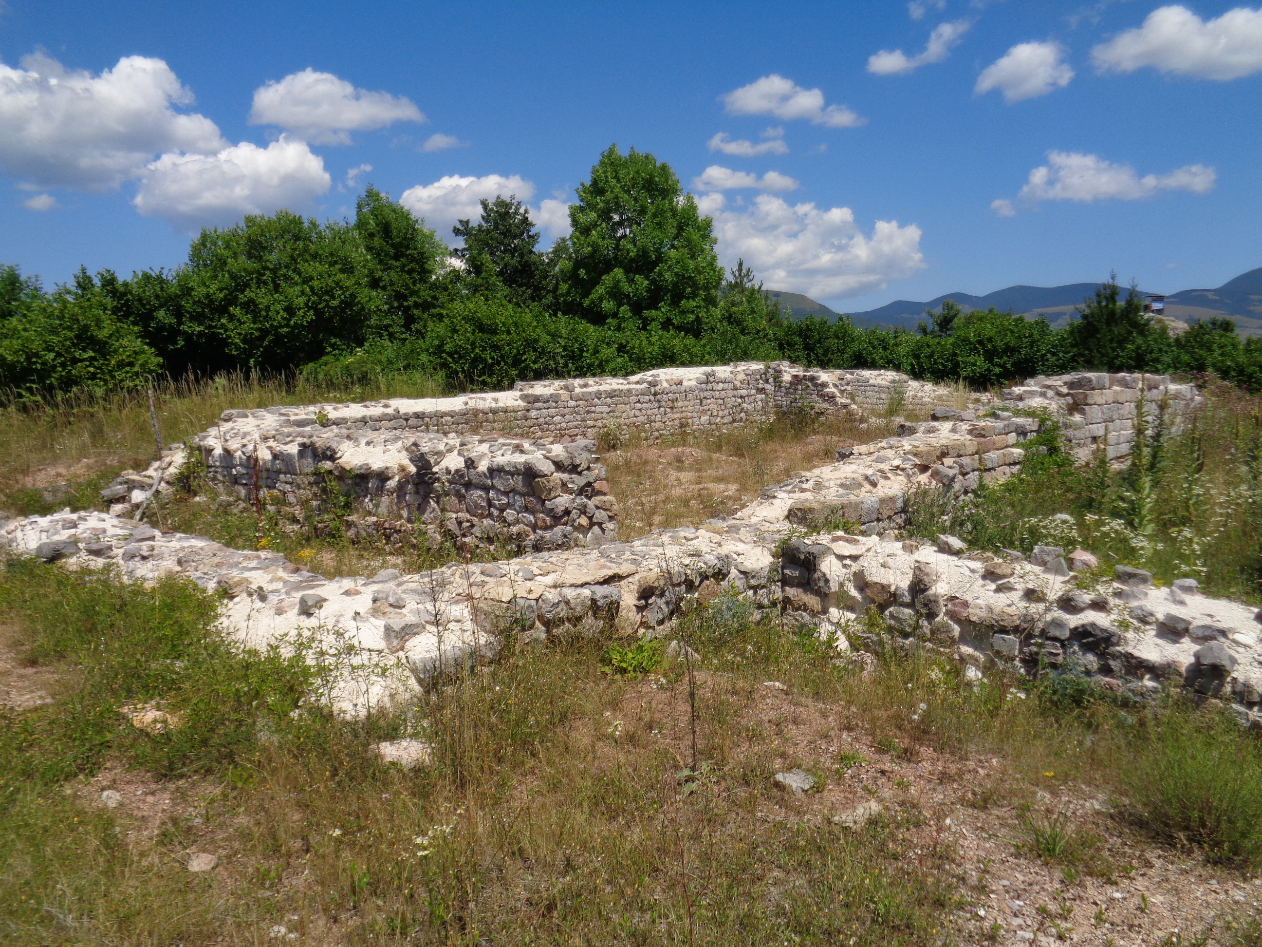 Ruins of the former Corbavian Cathedral of St. James in Udbina, Lika-Senj County, Croatia